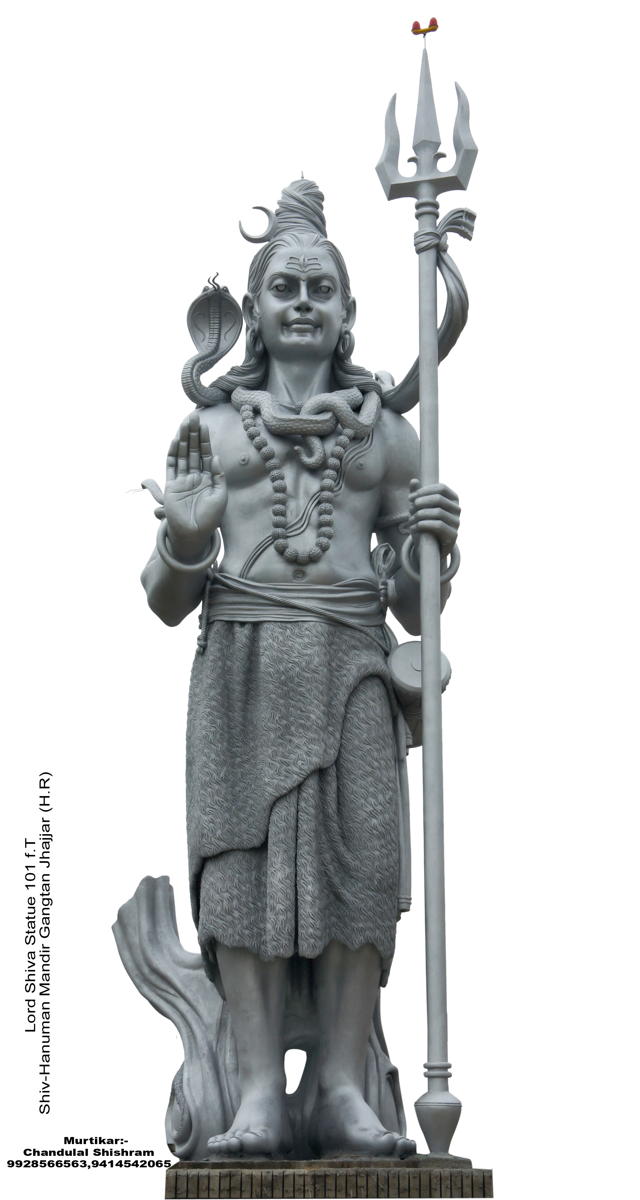 Murtikar Chandulal Verma new criation lord shiva statue 101ft tall in Gangtan (Digal) Distt-Jhajjar,Hariyana,INDIA